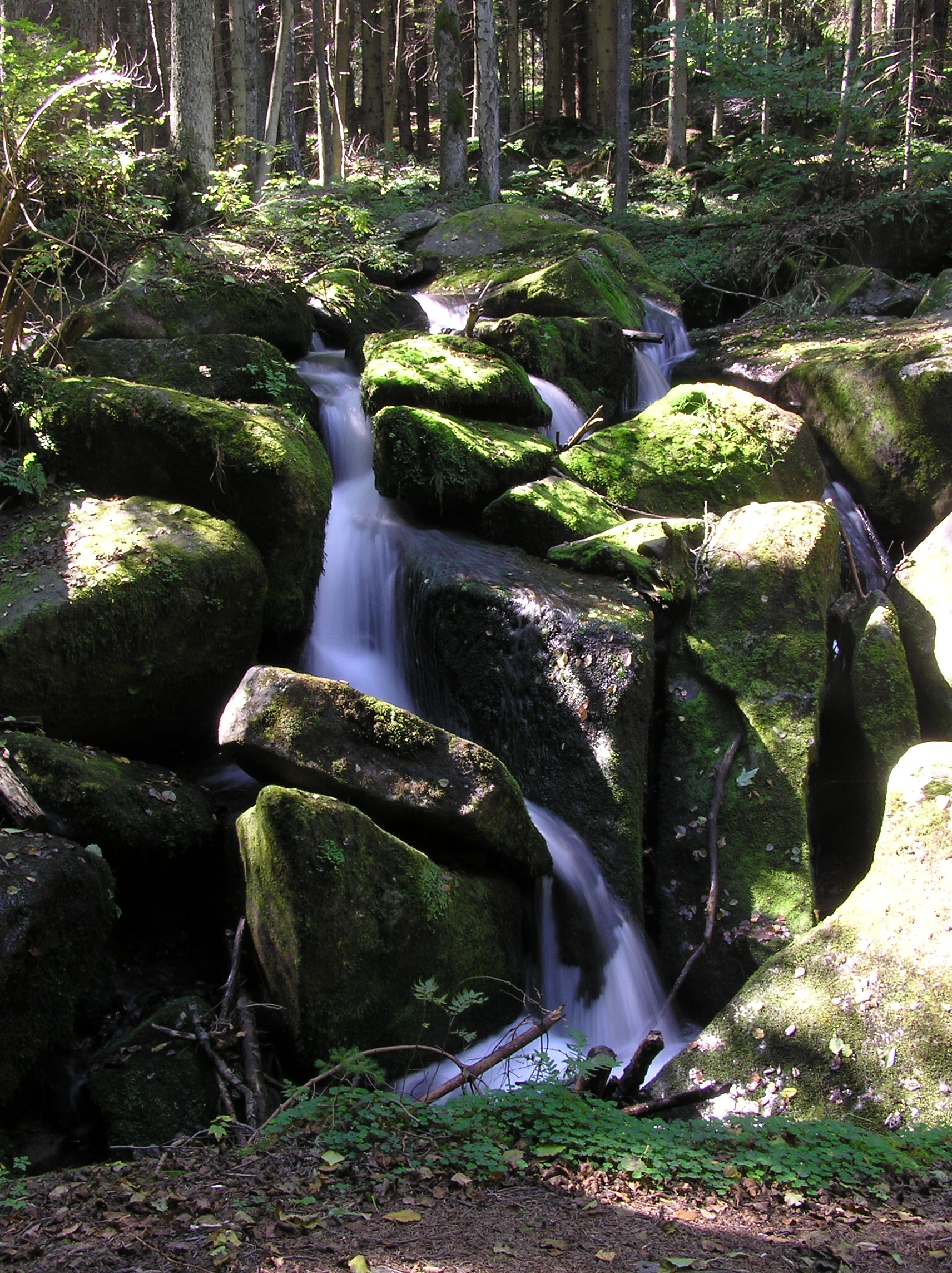 Wolfgang´s waterfall near mountain Vyklestilka